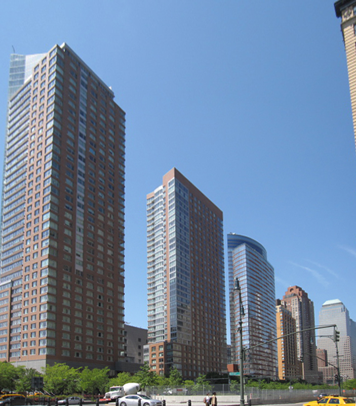 West Street at Battery Park City. From left to right: Millennium Point, Millennium Tower Residences and The Visionaire